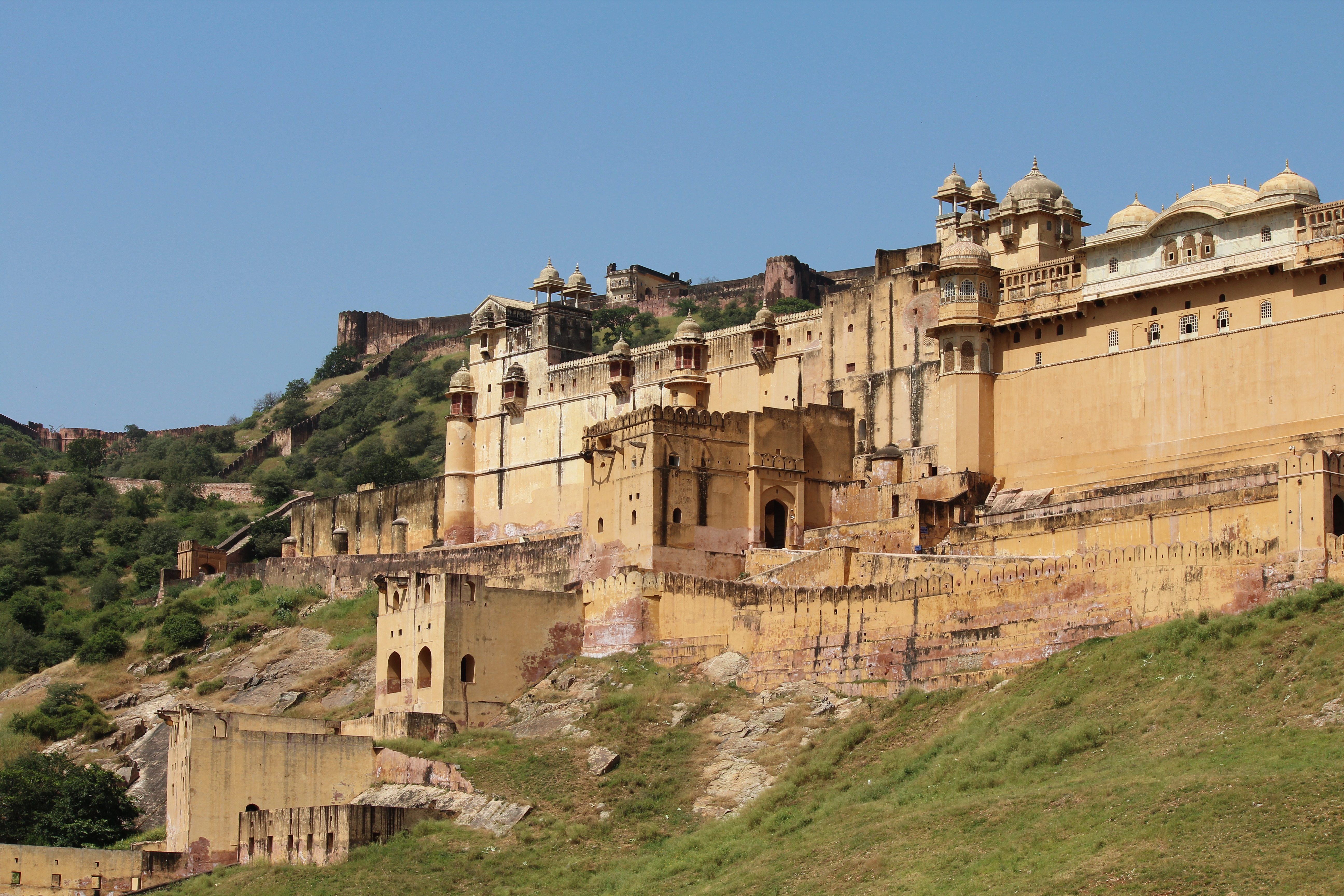 Amer Fort or Amber Fort is located in Amer, Jaipur, Rajasthan state, India